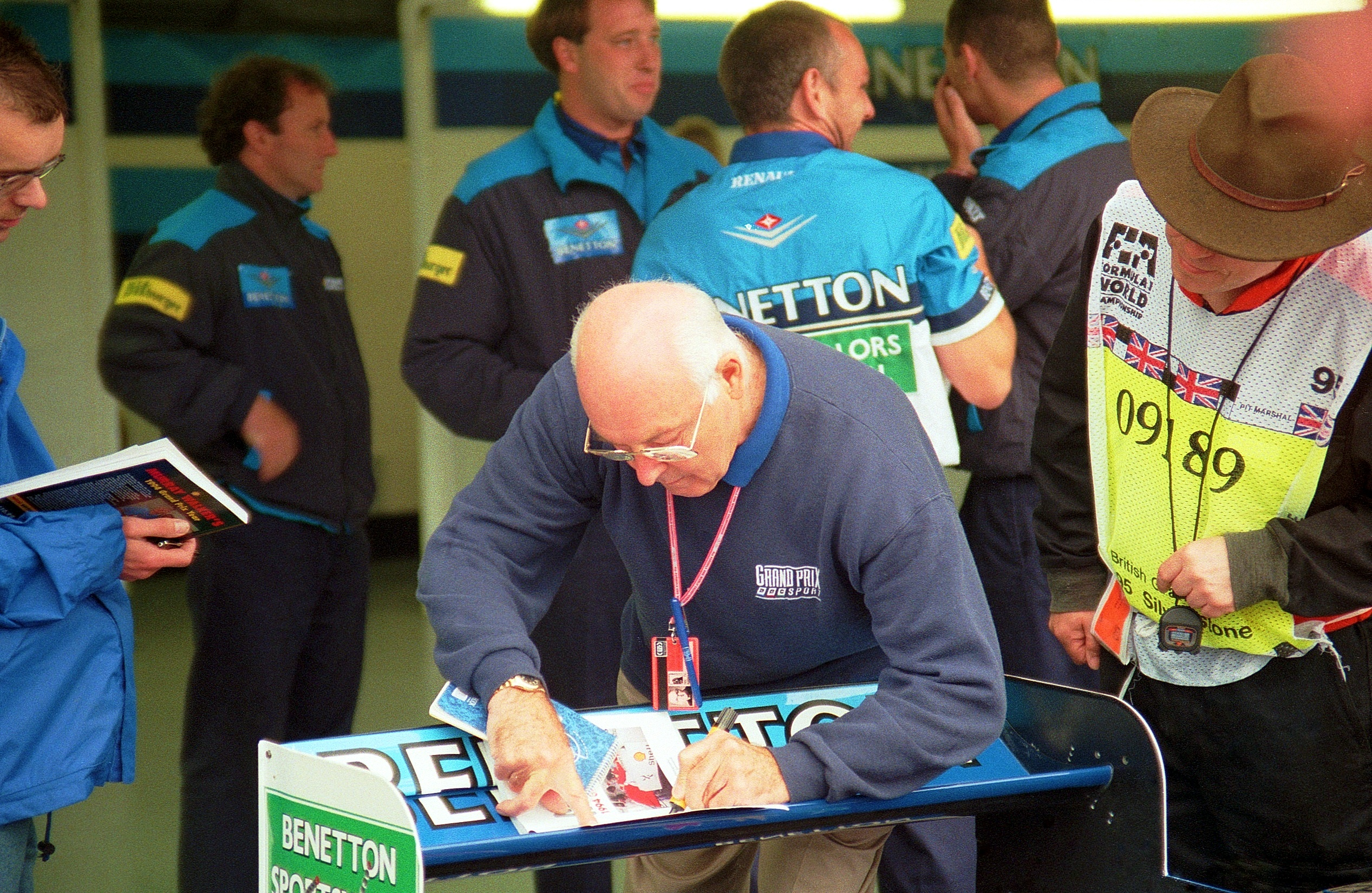 1995 British Grand Prix